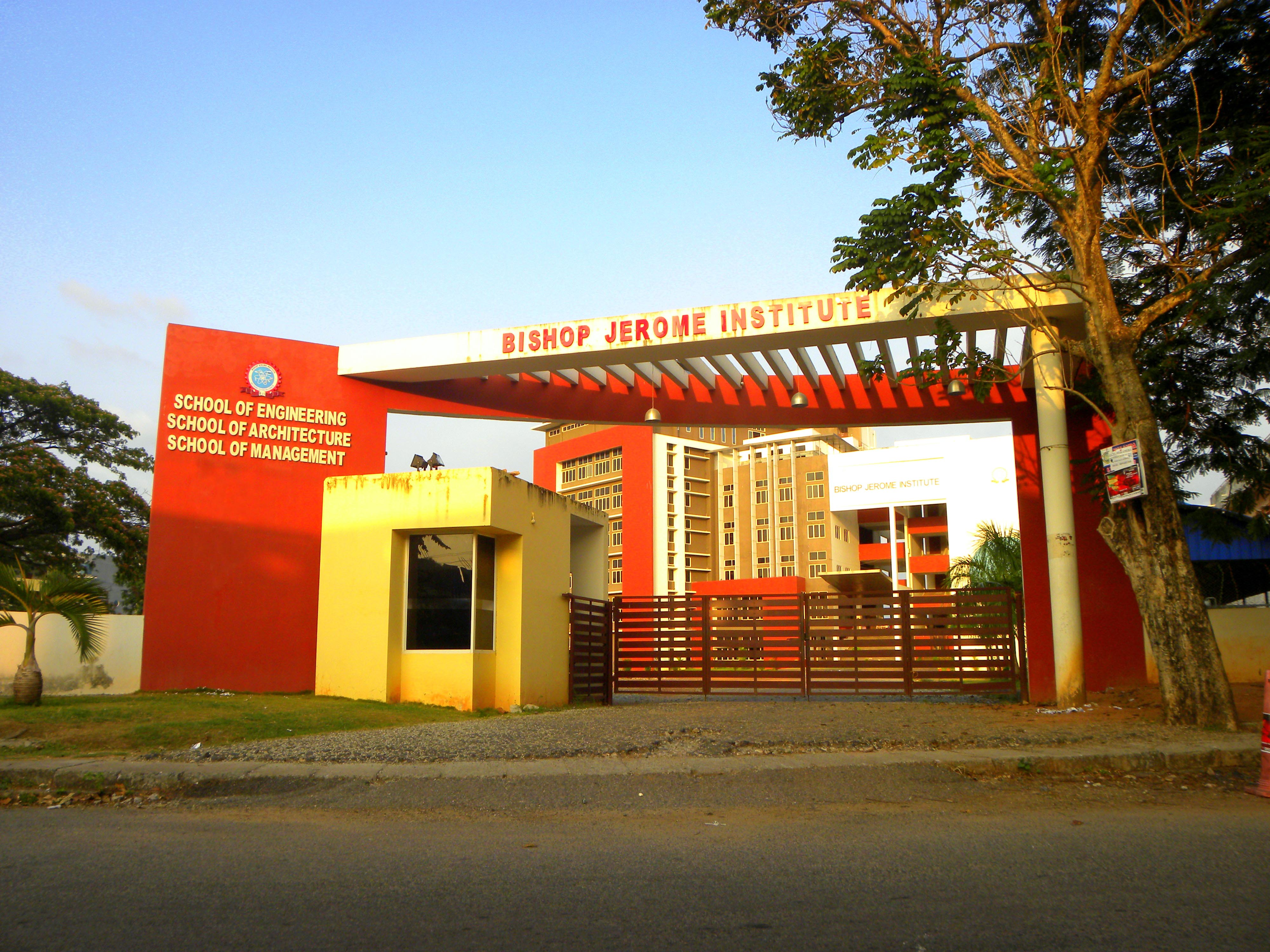 Bishop Jerome Institute - One of the premier institutes in Kollam city